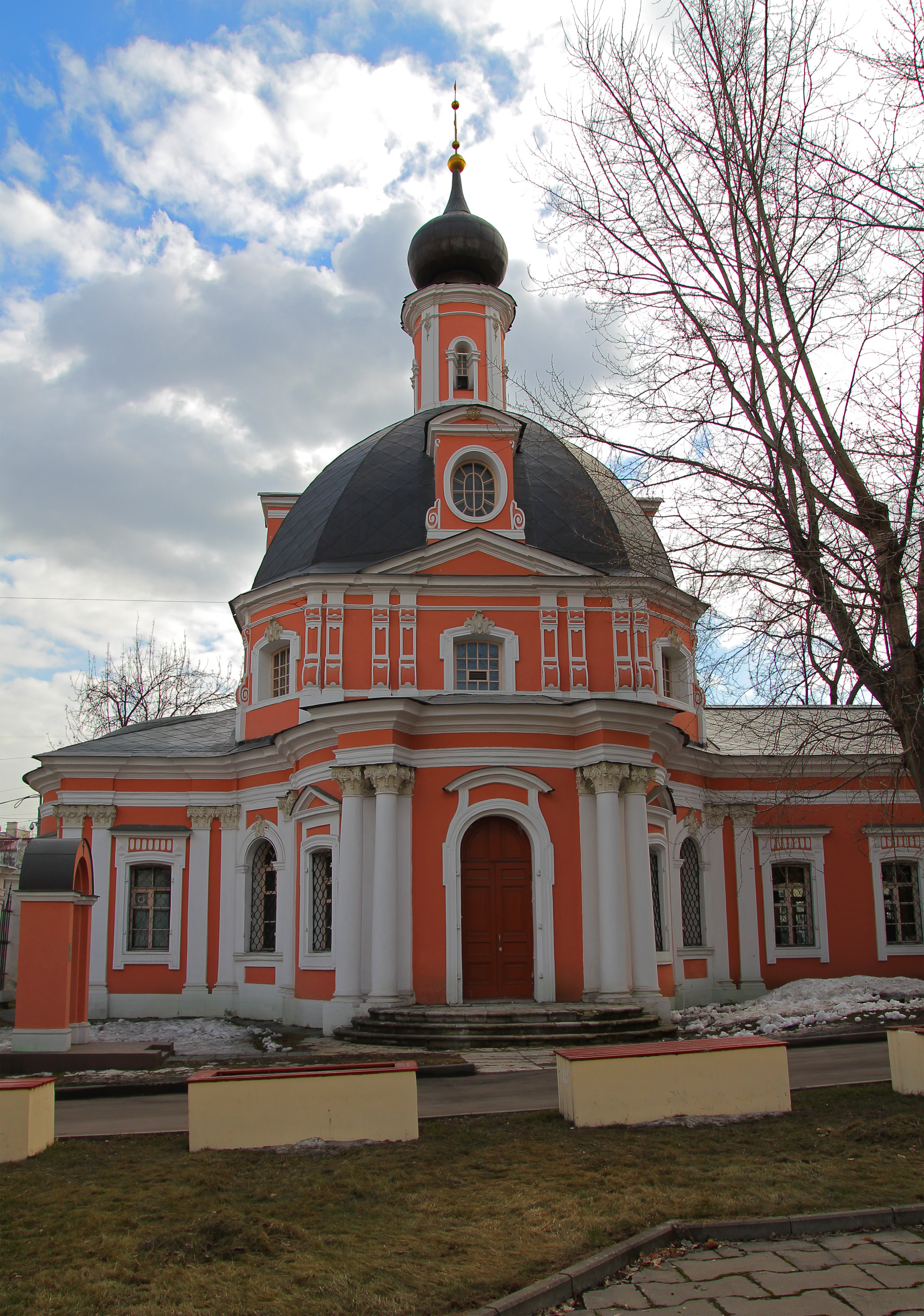 Saint Catherine Church in Vspolie in Moscow